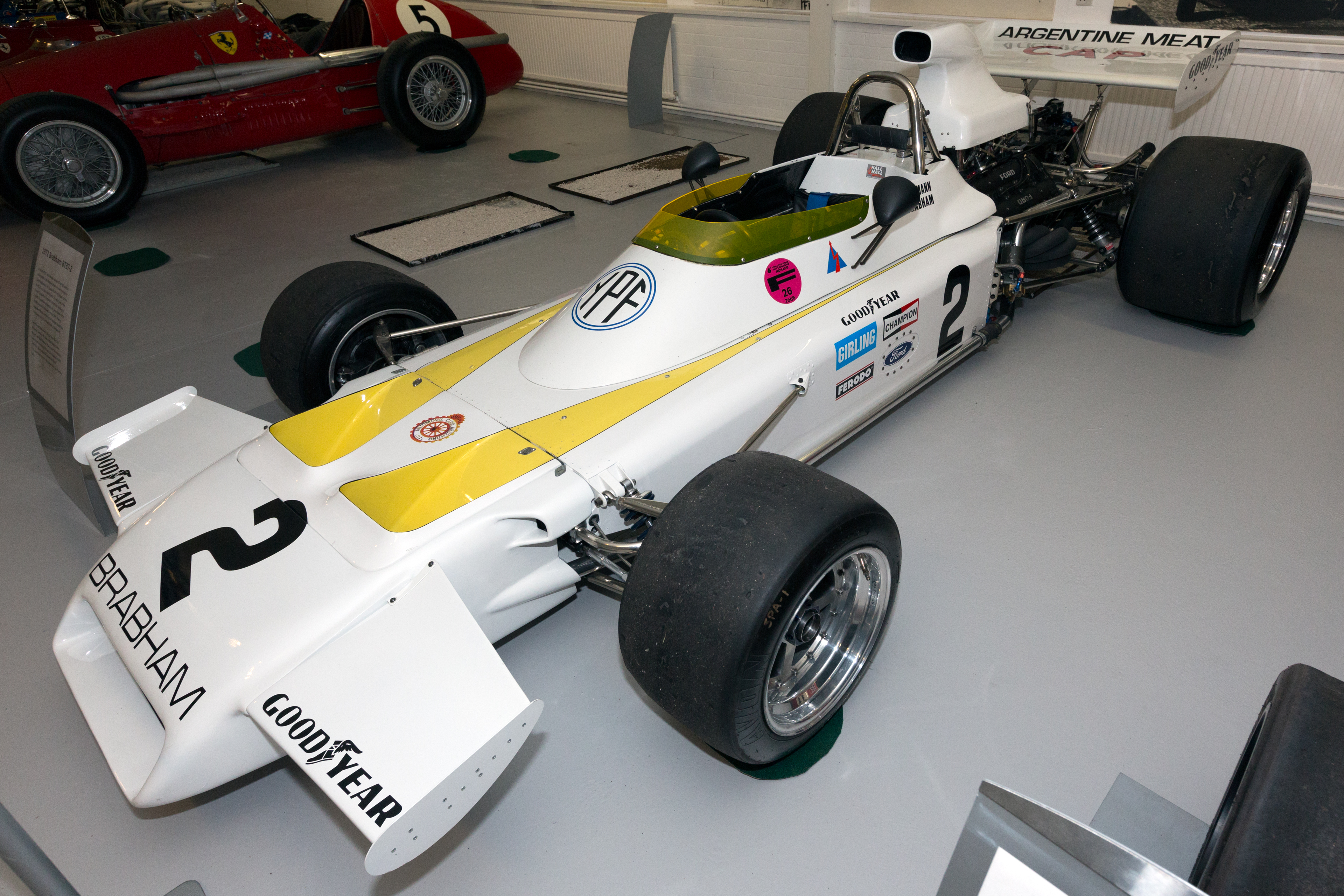 1972 Brabham BT37-2